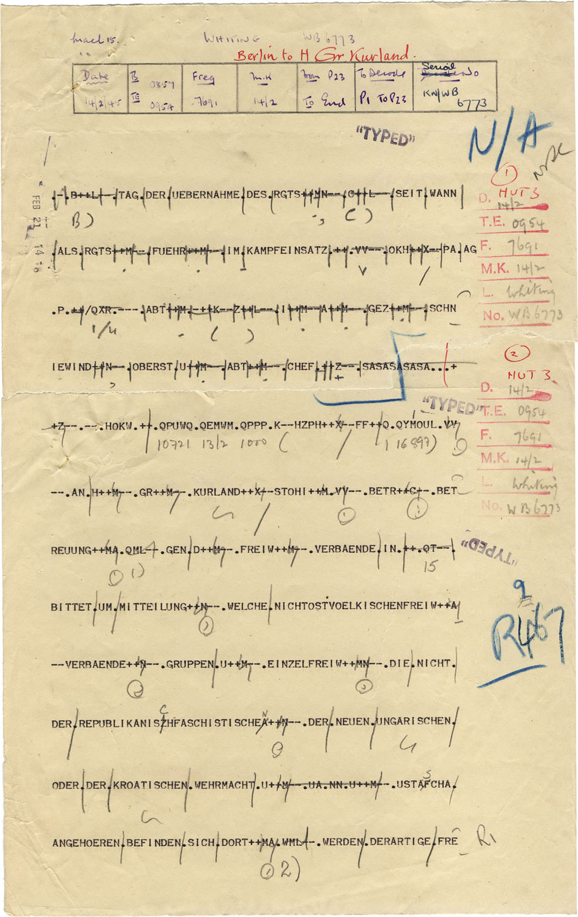 Photo of sample of decrypt from Bletchley Park, World War 2A “Tunny” (Lorenz machine) decryption from Bletchley Park, formed from parts of two messages to the German Army Group Courland (Kurland) on Feb. 14, 1945. The basic German form has been mostly deciphered, but would have been further analyzed by language and military experts to gain maximum information. (Photo courtesy Dr. David Hamer)